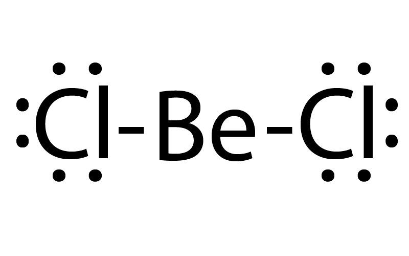 BeCl2original upload summary: "Henry Snow, self-made, public domain"